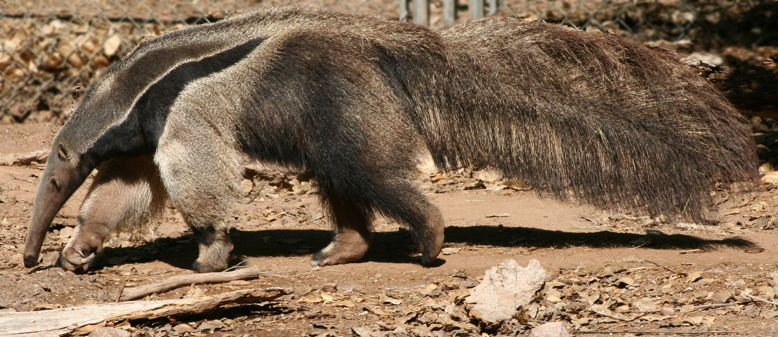 Giant anteater (Myrmecophaga tridactyla). Photographed at the Phoenix Zoo, Phoenix, AZ.